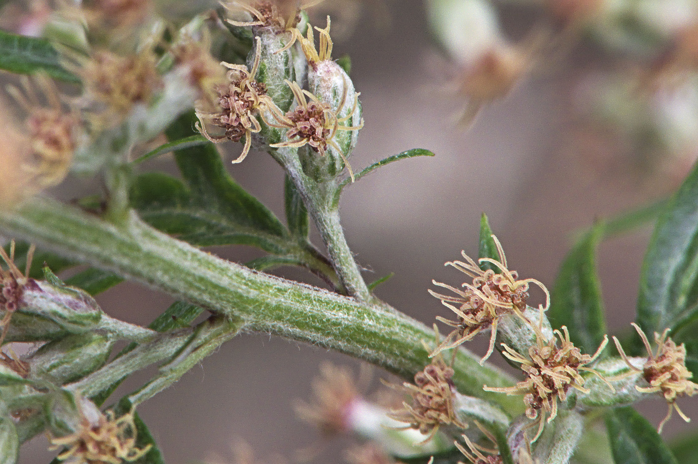 Artemisia vulgaris flowers